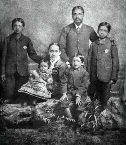 Sri Aurobindo with his family father Dr. K.D. Ghose, his mother Swarnalata Devi and four siblings: [From left to right: Benoy Bhushan, Sarojini, Sri Aurobindo and Manmohan.]